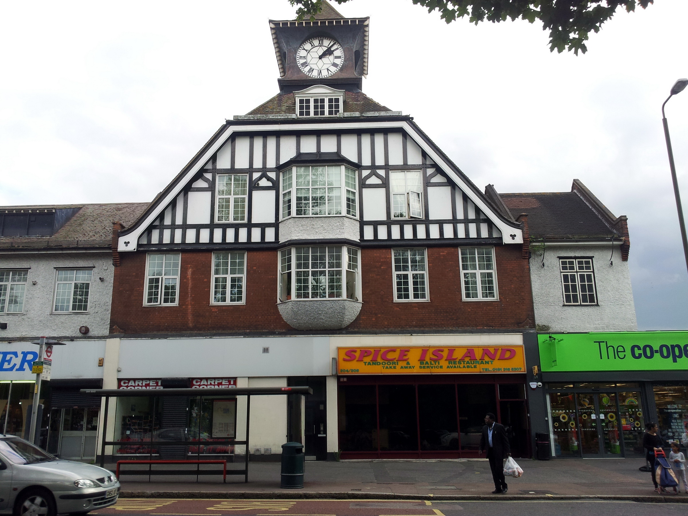 Former Royal Arsenal Co-operative Society (RACS) building on Plumstead Common Road in Plumstead, Royal Borough of Greenwich, South East London. There is still a small Co-op supermarket in the building.